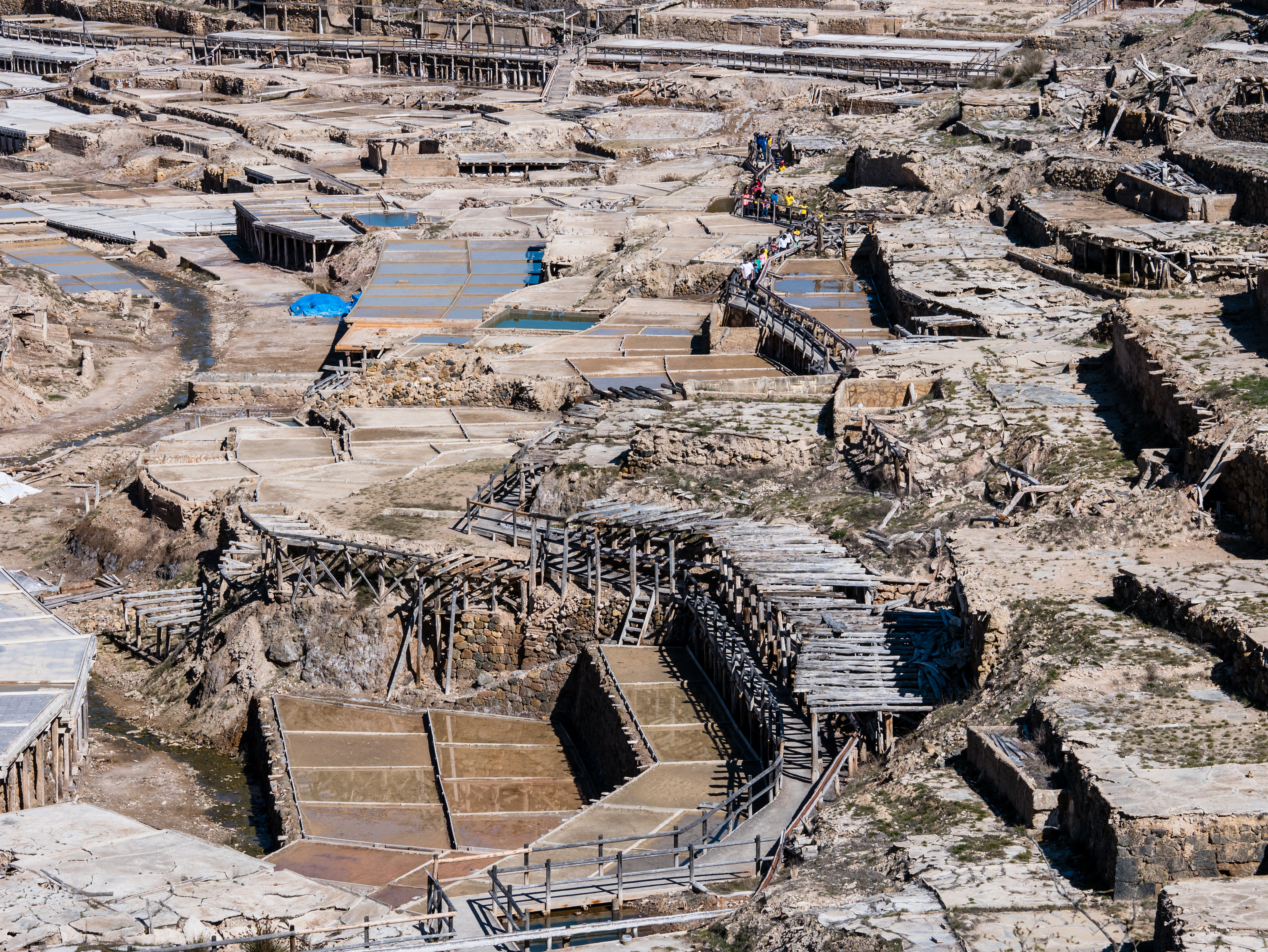 Valle Salado ("Salty Valley") at Salinas de Añana; former and reconstructed salt evaporation ponds. Álava, Basque Country, Spain